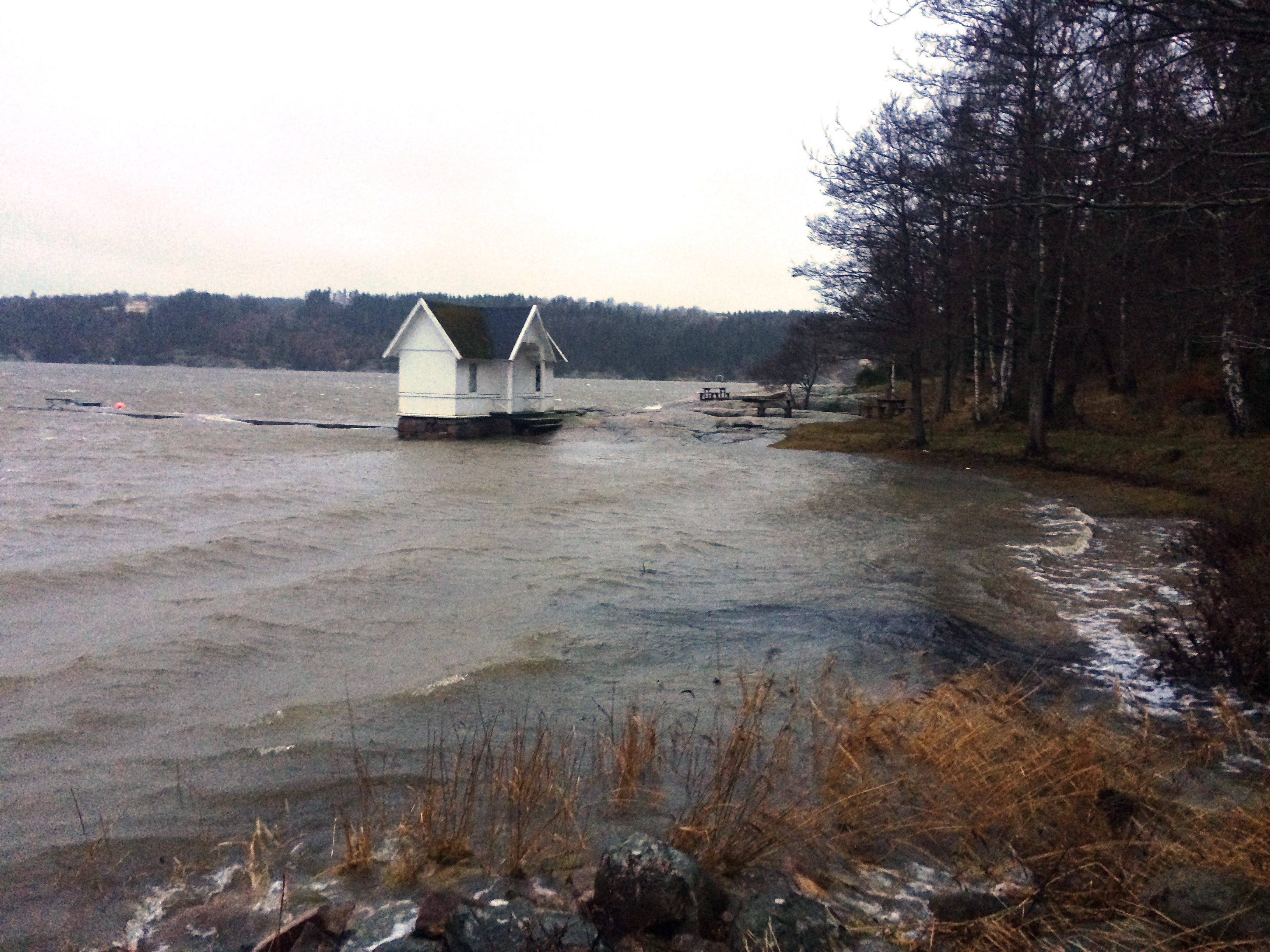 Image of the storm "Synne" (Norway) or "Helga" (Sweden), which was sweeping past Southern Norway, and reaching the west coast of Sweden - all on December 5, 2015. This image from the Gullmarn Fjord shows sea waters 50-70 cm above the normal, an Heavy Winds even in the inner parts of the fjord. Munkedal municipality, Sweden.